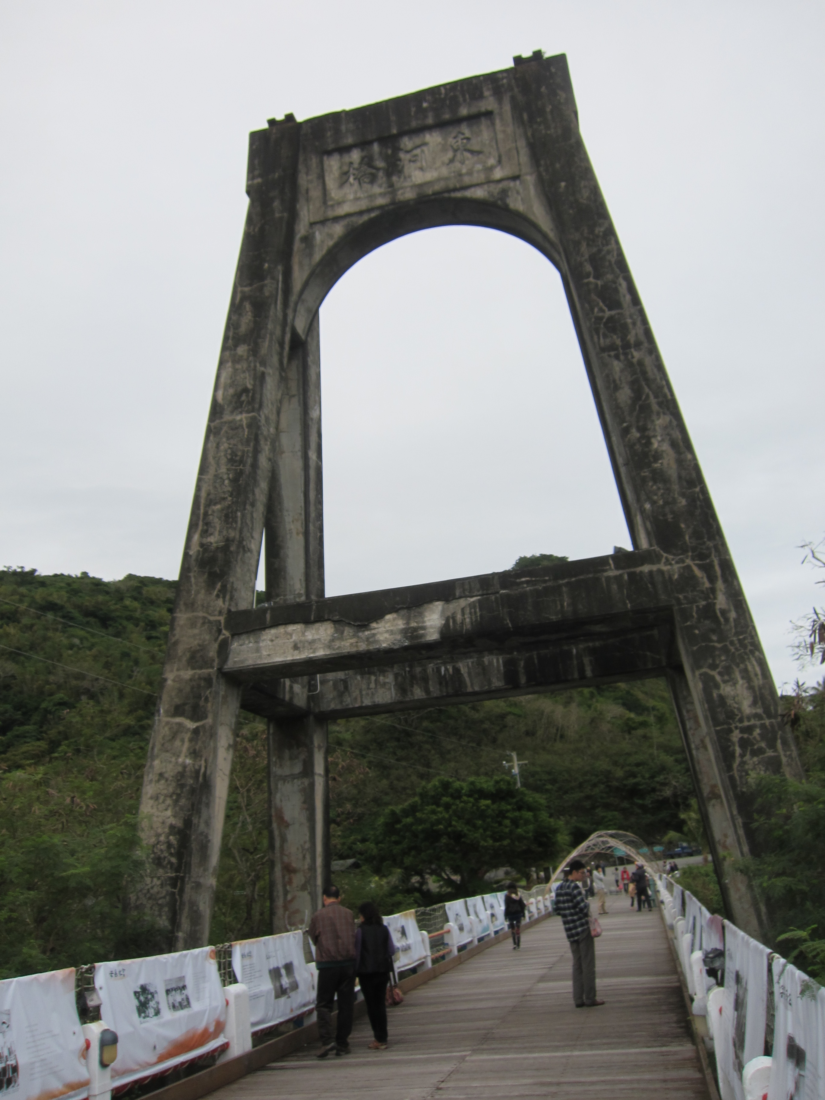 The Old Donghe (Tungho) Bridge over Mawuku Creek in Taitung, Taiwan中文（台灣）: 台灣台東的舊東河橋Unknown el puente viejo de donghe (tungho), taitung, taiwán